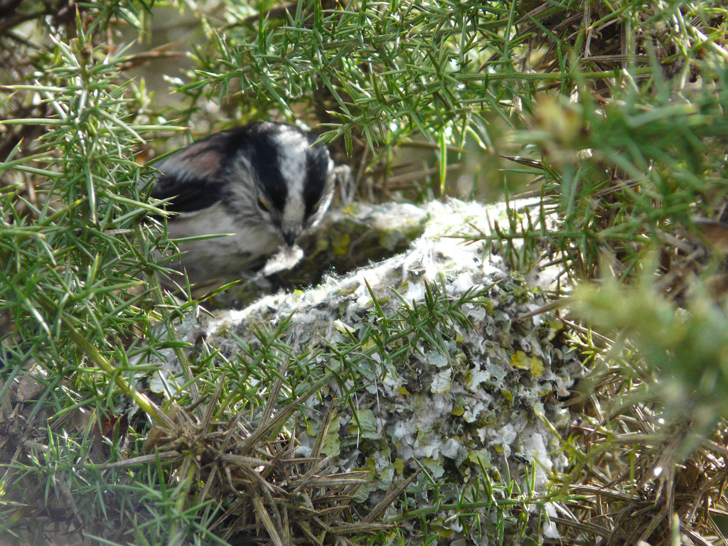 Nest of Long-tailed Tit Aegithalos caudatus. This photo was taken by Alan Shearman on March 7, 2009 in Dungeness, England, GB, using a Panasonic DMC-FZ18.